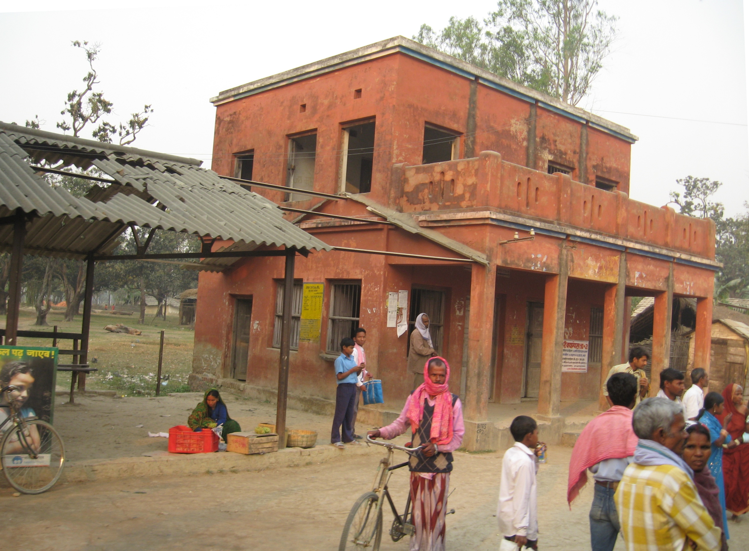 Trainstop of Nepal Railways in Perbaha?. Object location26° 42′ 14.6″ N, 85° 59′ 25″ E